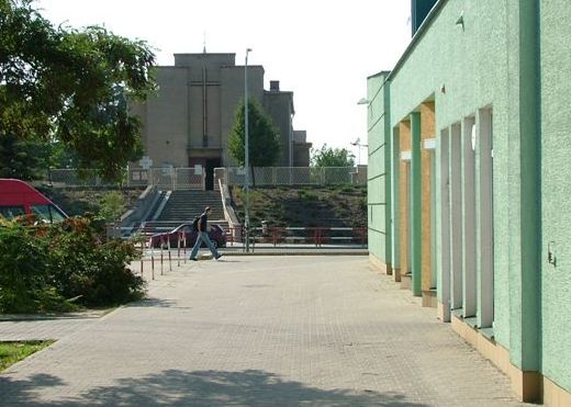 Przezmierowo - Church and Shopping Center, Rynkowa Street.